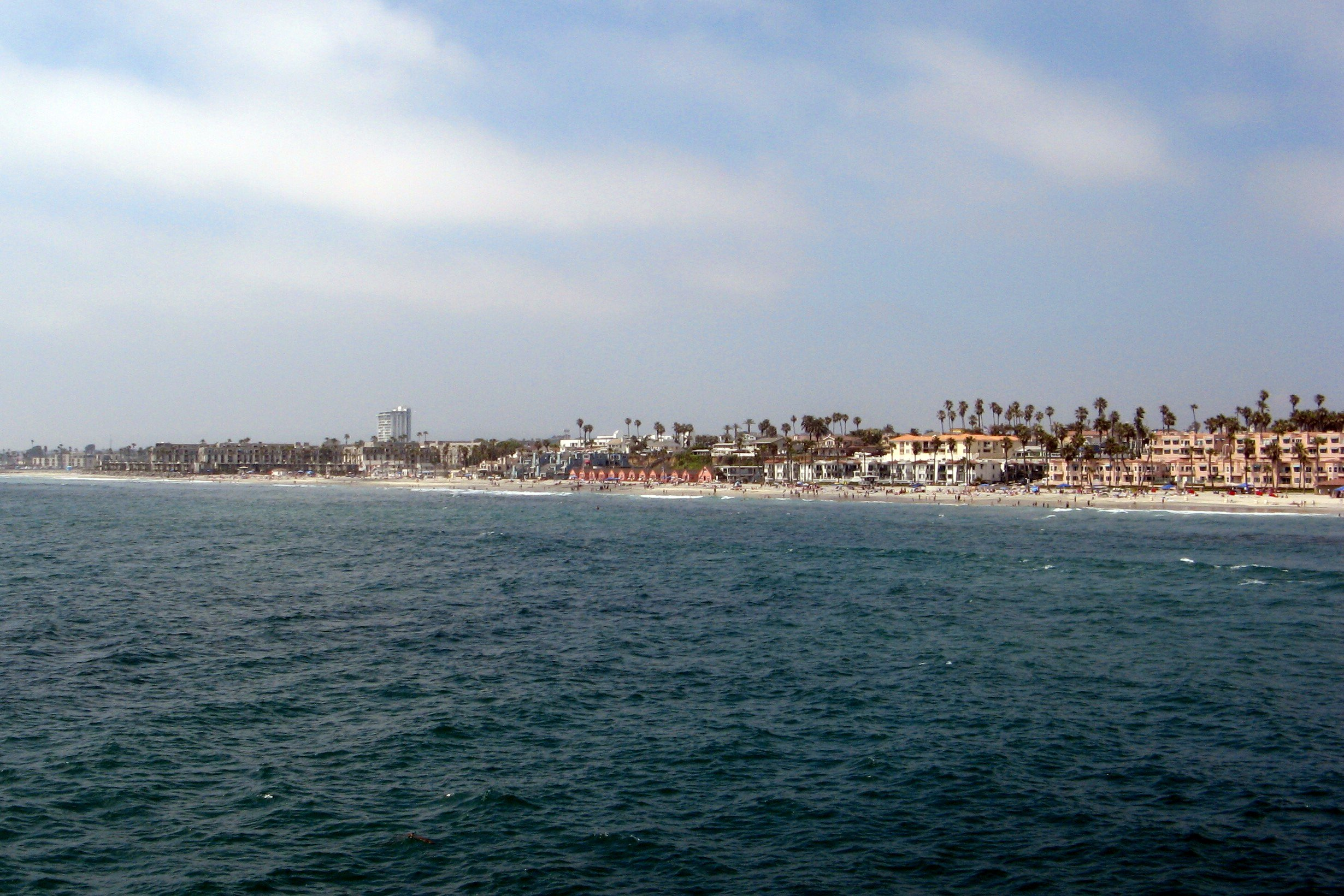 Oceanside, California beach view panorama